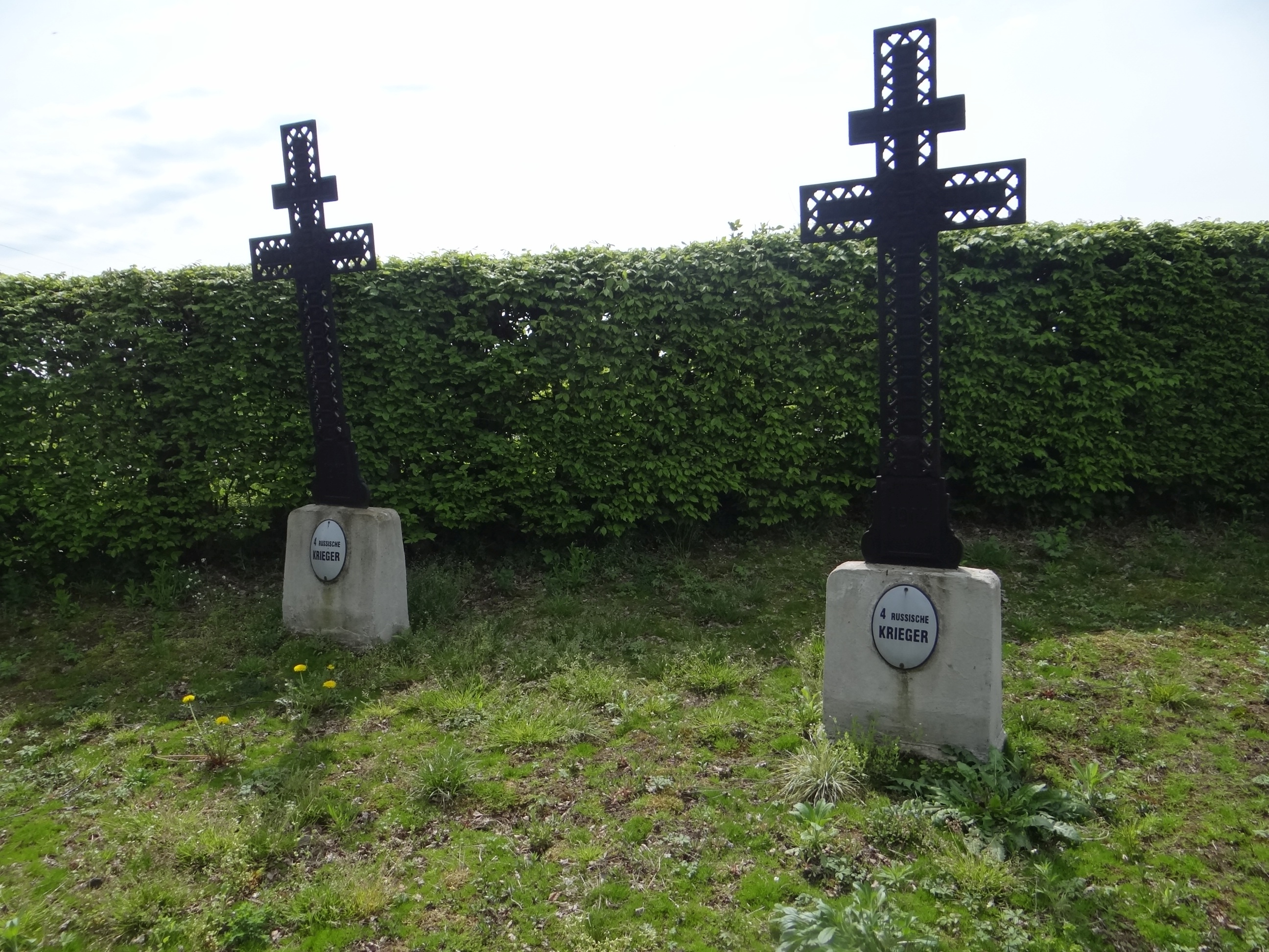 World War I Cemetery nr 154 in Chojnik-Zadziele